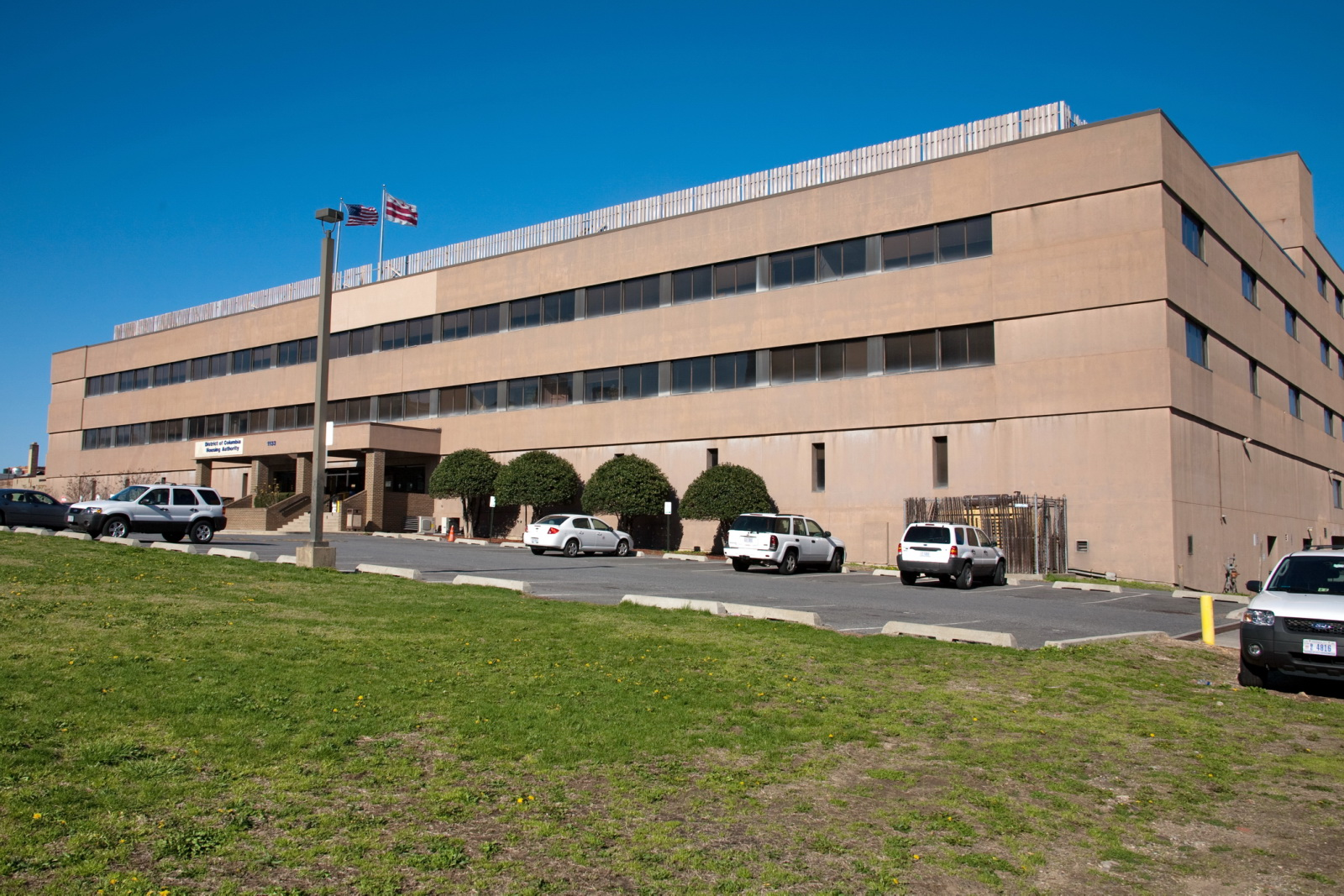 D. C. Housing Authority Building